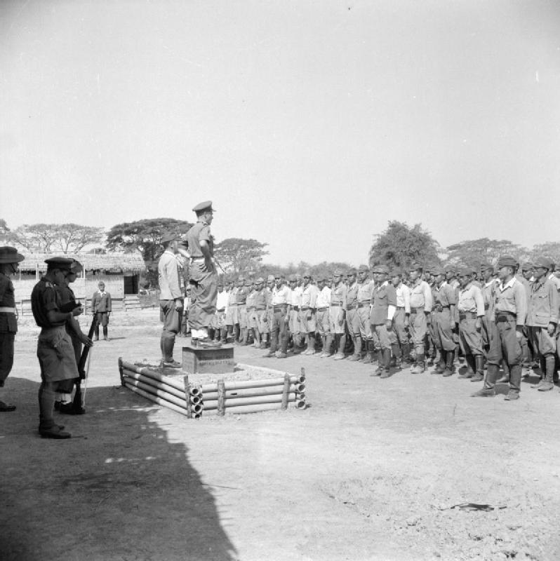 The British Reoccupation of Burma Captain J D Faulkner MC, commandant of a prisoner of war camp in the Kokine Lake area of Rangoon, addresses the Japanese inmates on discipline following some acts of disobedience amongst the prisoners. In total the camp held 3,000 Japanese prisoners.